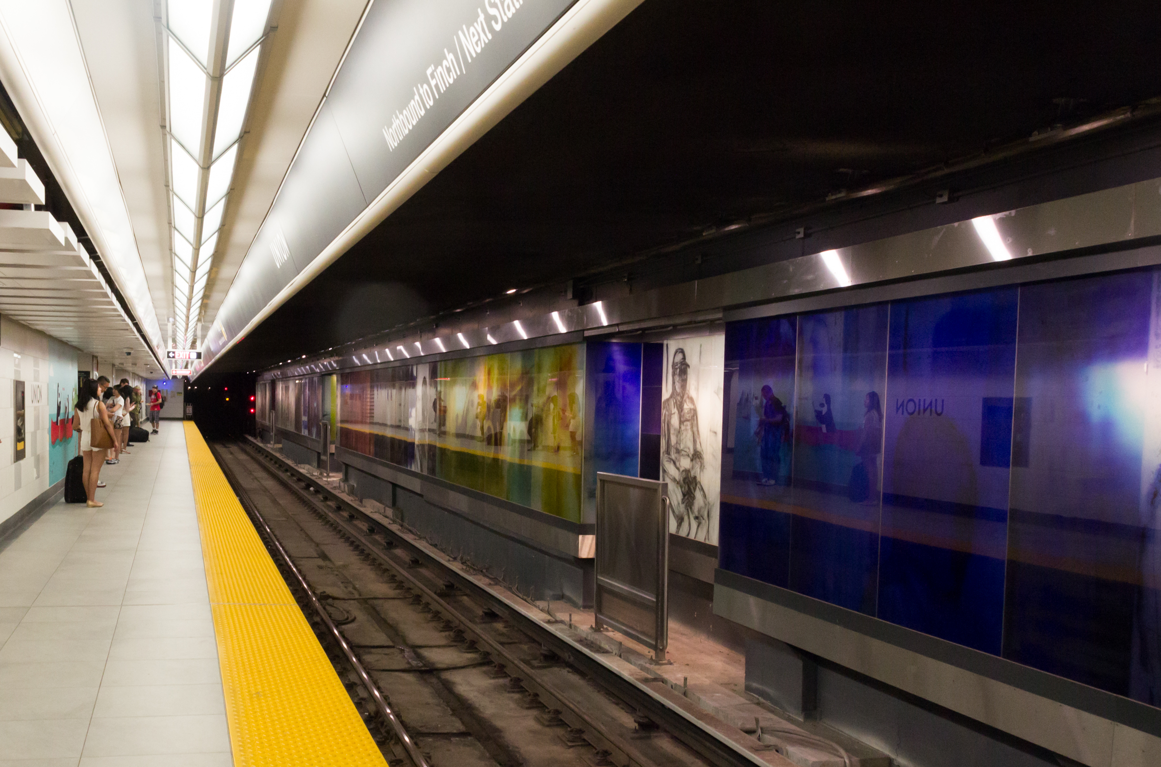 Union Station, Toronto, TTC